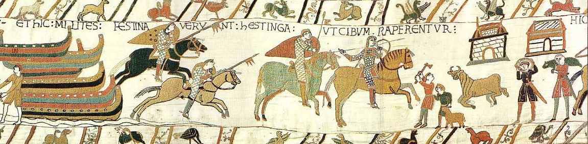 Bayeux Tapestry, scene 40